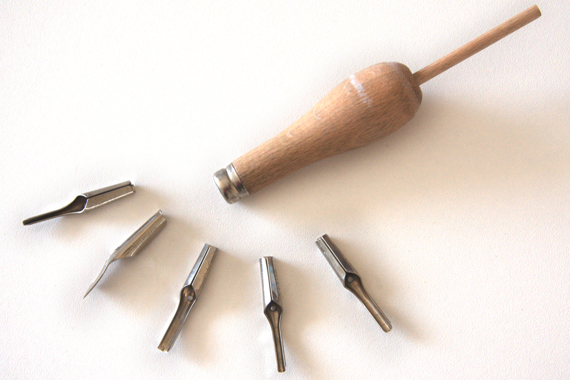 Gouges for woodcut and linocut.